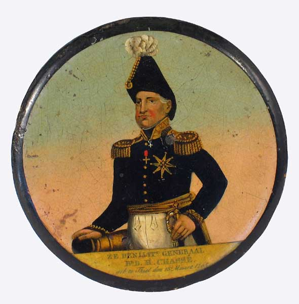 Lieutenant-general Baron D.H. Chassé, born in Tiel on 18 March 1756. (General Chassé died 2 May 1849).